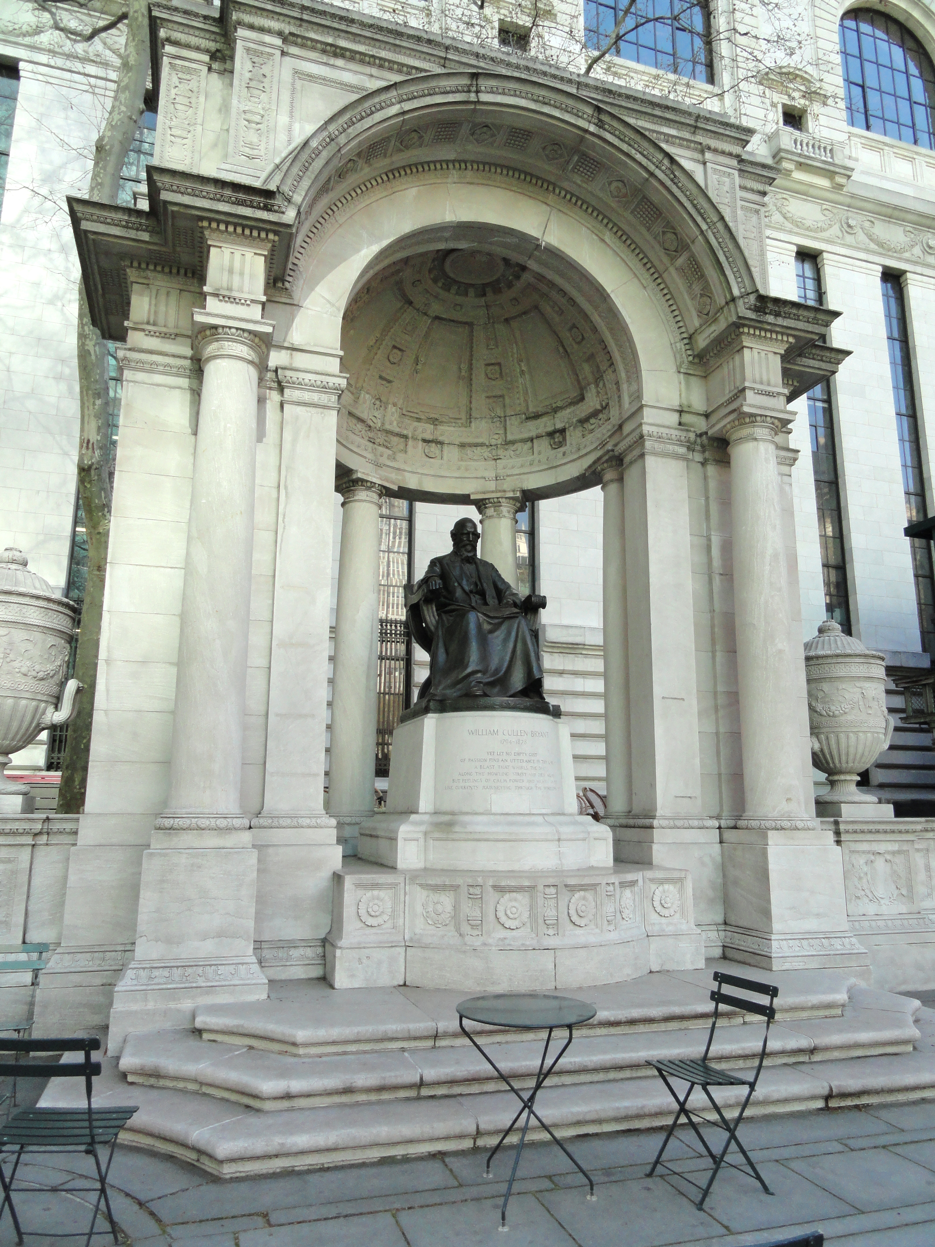 William Cullen Bryant Memorial by Herbert Adams (1858-1945), Bryant Park, New York City, New York, USA. Created 1907-1911. Now in the public domain because first published in the United States before 1923.